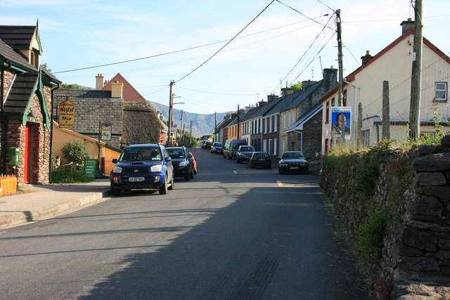 Cloghane Village This is the main street in Cloghane. On the extreme left is the Mount Brandon Hostel, where the Post Office with its emerald green letterbox is situated. beyond that, with the slate and thatched roof, is O'Donnels, a pleasant pub where a good unpretentious meal can be had, the rhubarb and strawberry crumble was delicious ! The large blue poster was one of many to be seen across Eire at this time, with European Parliament and local council elections taking place.